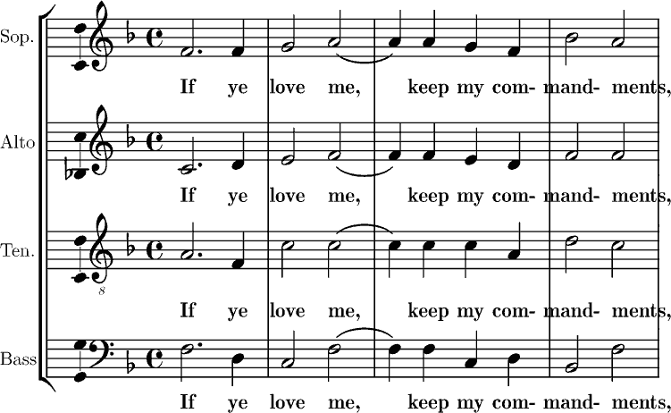 Fragment of if you love me, example of Homophony